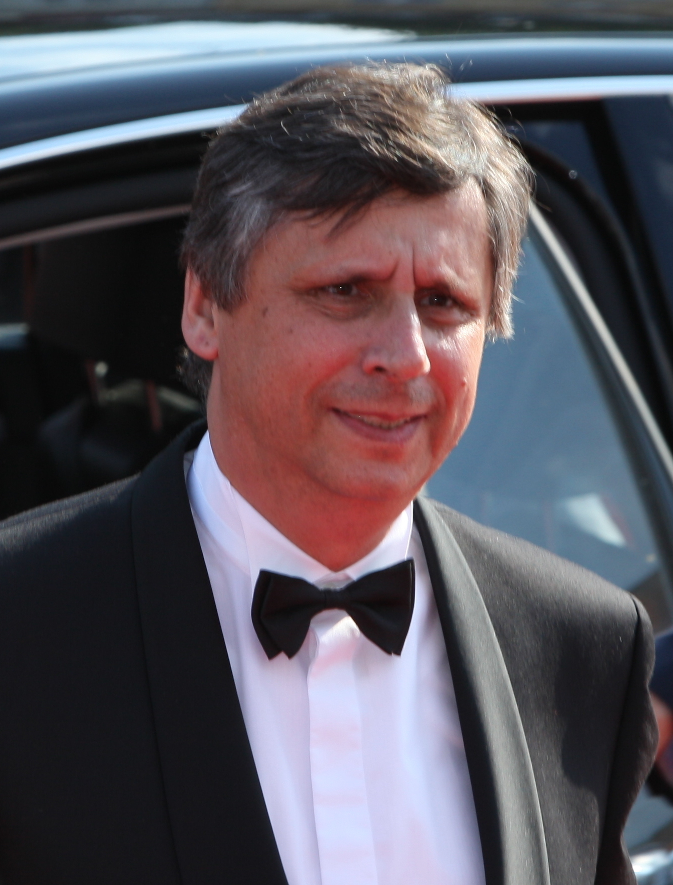 Czech prime minister Jan Fischer at 44th Karlovy Vary International Film Festival